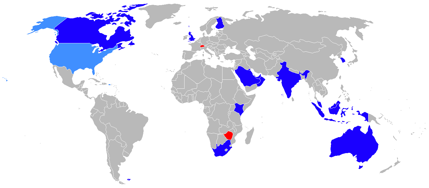 This is a map showing the current (dark blue) and former (red) operators of the BAE Hawk and the related T-45 Goshawk (in light blue).